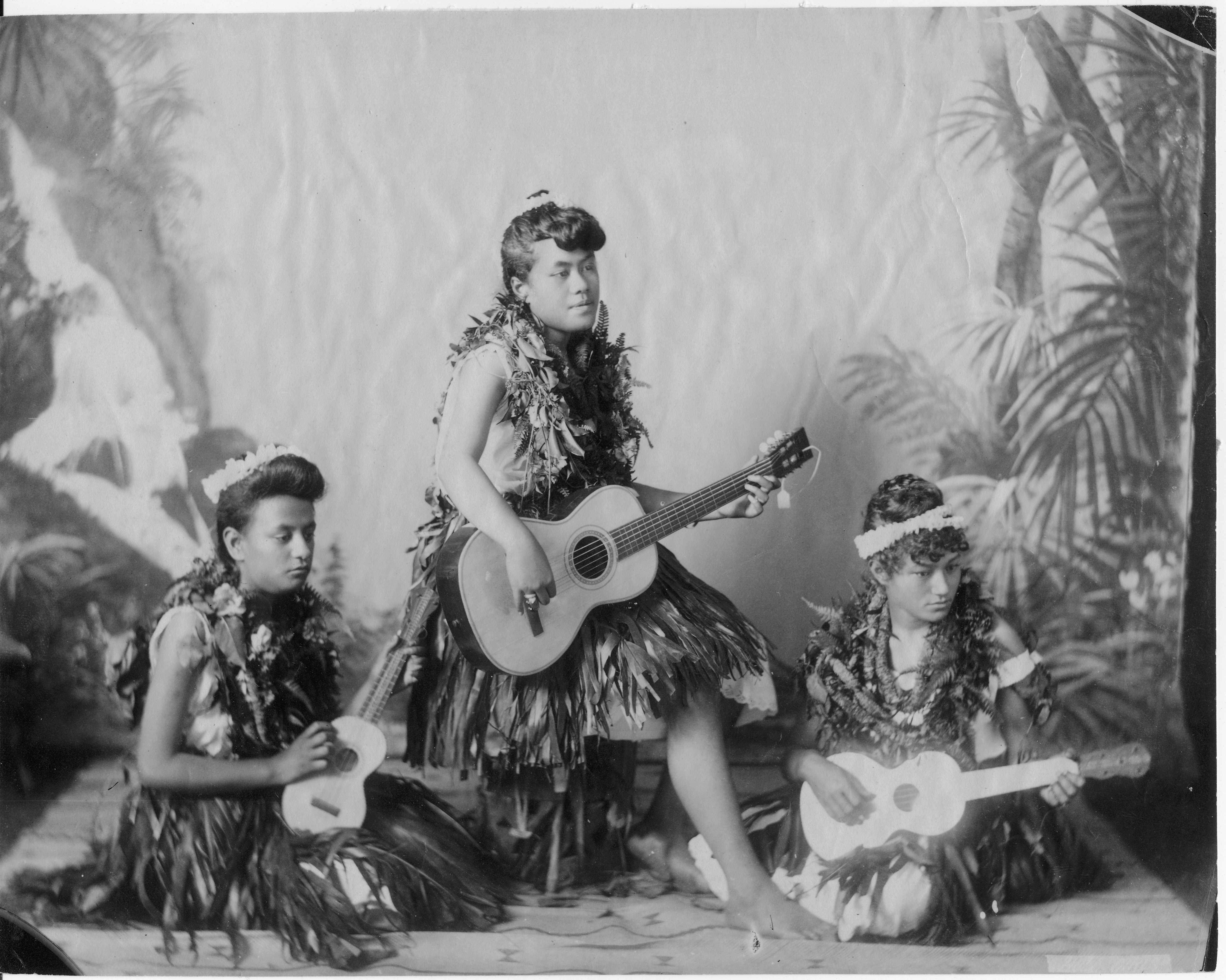 Hawaiian hula dancers with guitar and ukulele photographed in J. J. Williams' photo studio.